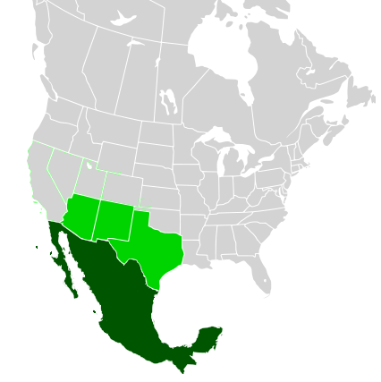 The territories promised to Mexico, as mentioned in the Zimmermann Telegram. Mexican territories. American territory promised to Mexico. American territory that was once Mexican territory. See Mexican–American War.